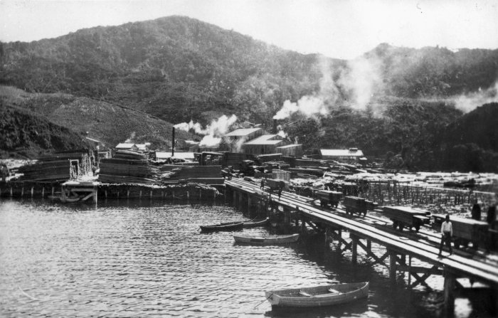 A sawmill and wharf structures at Whangaparapara, Great Barrier Island, New Zealand, ca 1910. Extended information on origin webpage reads: K T Co Sawmill and wharf, Whangaparapara, Great Barrier Island [ca 1910] / Reference number: PAColl-5521-06 / 1 b&w original photographic print(s). Silver gelatin print. Horizontal image. / Part of Young, L R: Photographs, including ones of Great Barrier Island and the timber industry (PAColl-5521) Photographic Archive / Scope and contents: K T Co sawmill and wharf, Whangaparapara, Great Barrier Island, circa 1910. Photographer unidentified.